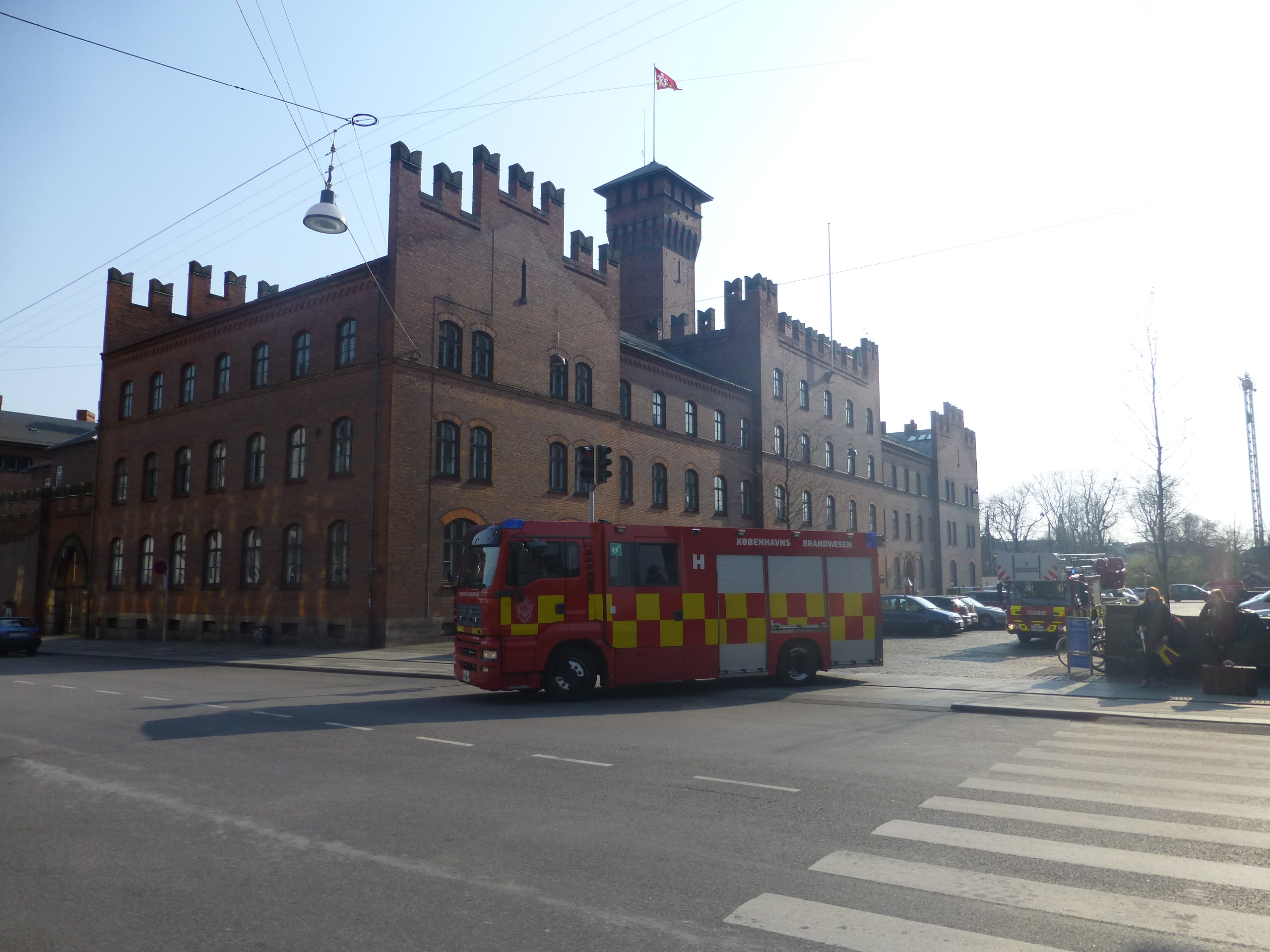 Fire-brigade turnout from the main fire station in Copenhagen. Fortunately it was just a blind alarm.